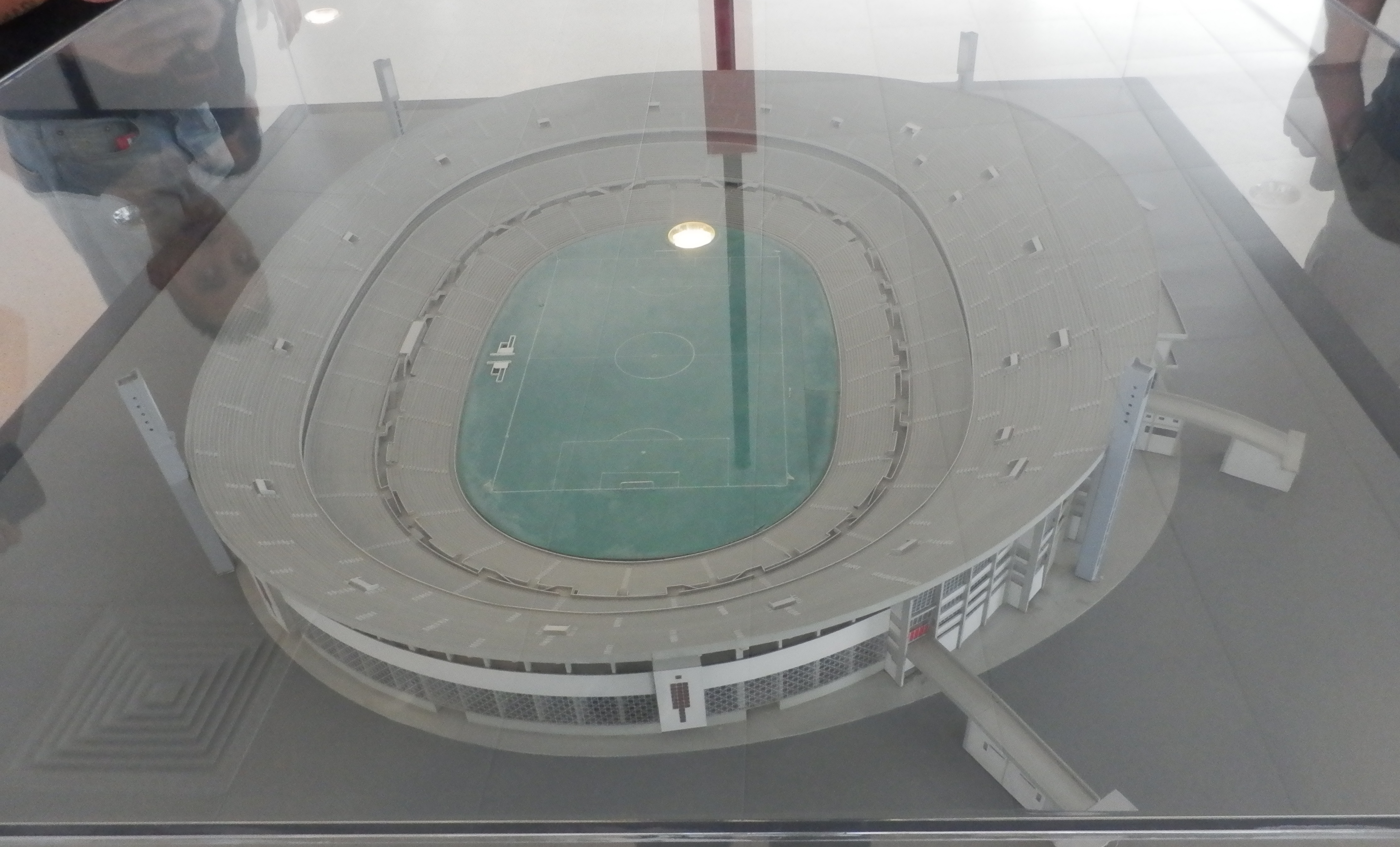 Top view of the old estádio da Luz model